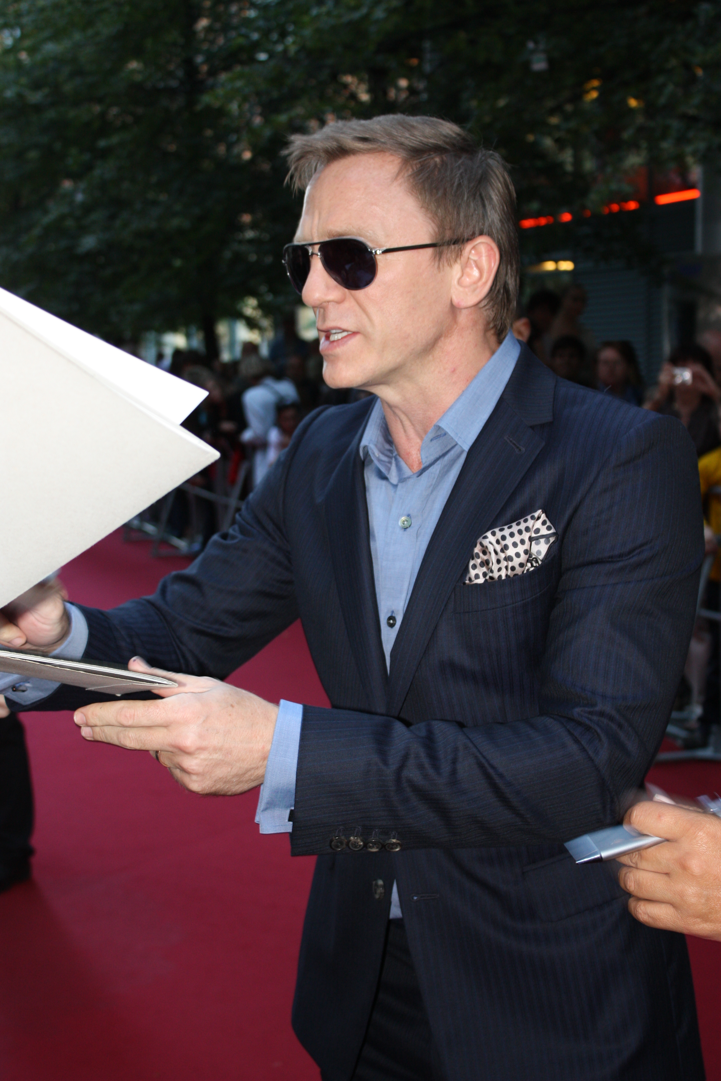 Daniel Craig at the premiere of Cowboys & Aliens in Berlin in 2011.